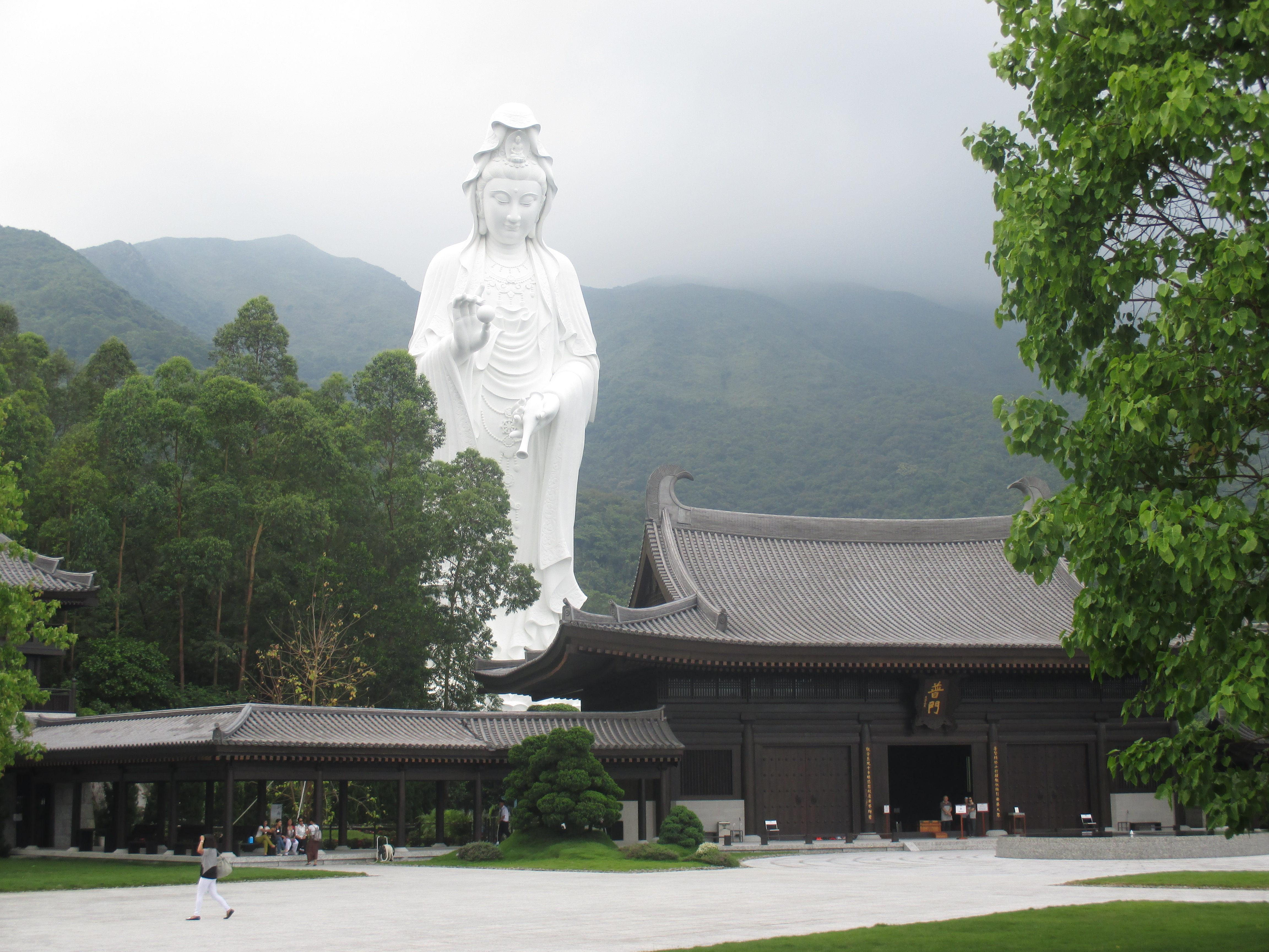 Tsz Shan Monastery - Upper courtyard